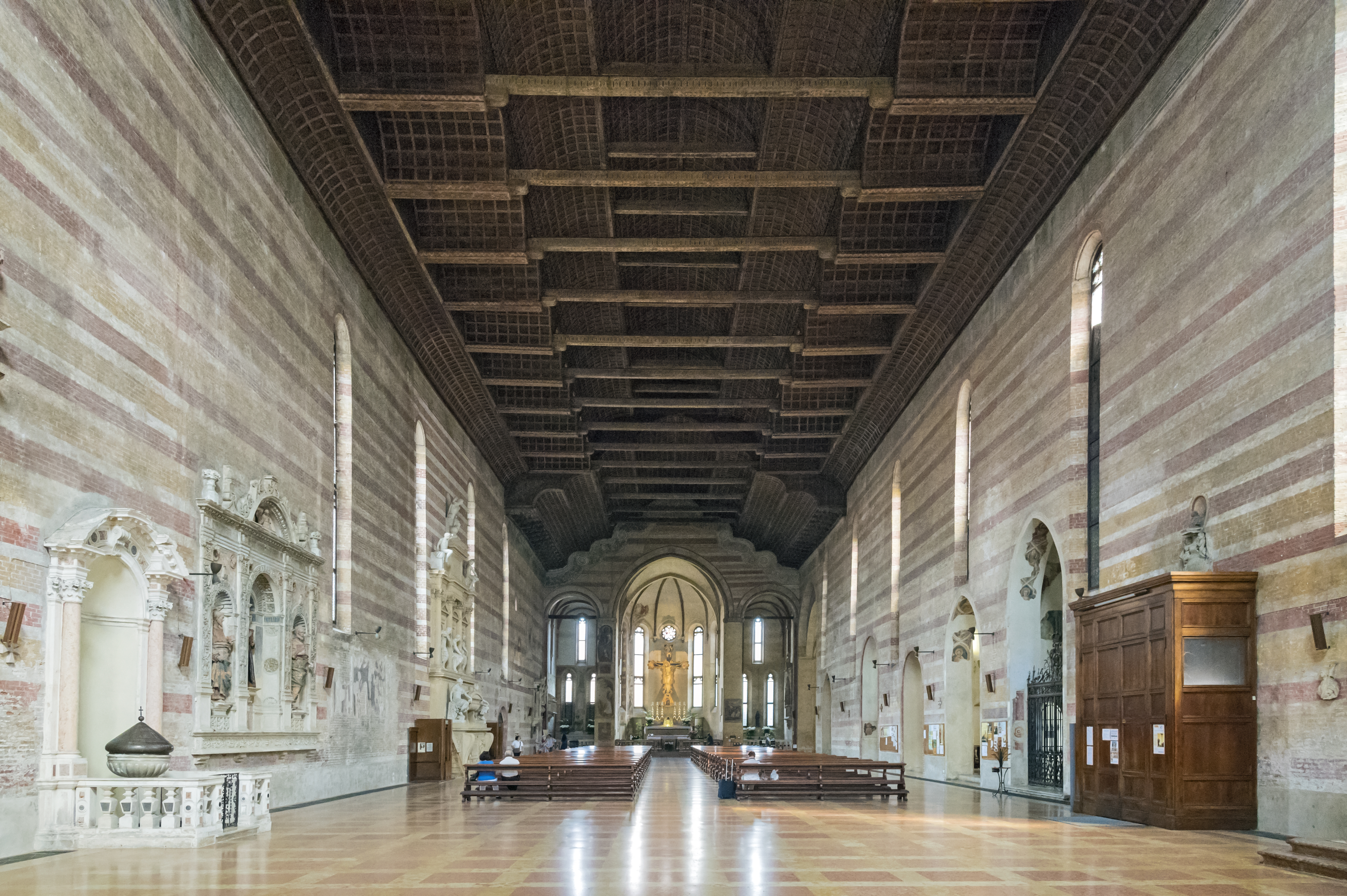 Church of the Eremitani, Interior, the ceiling of the nave, which looks like an inverted hull, by the architect Giovanni degli Eremitani.